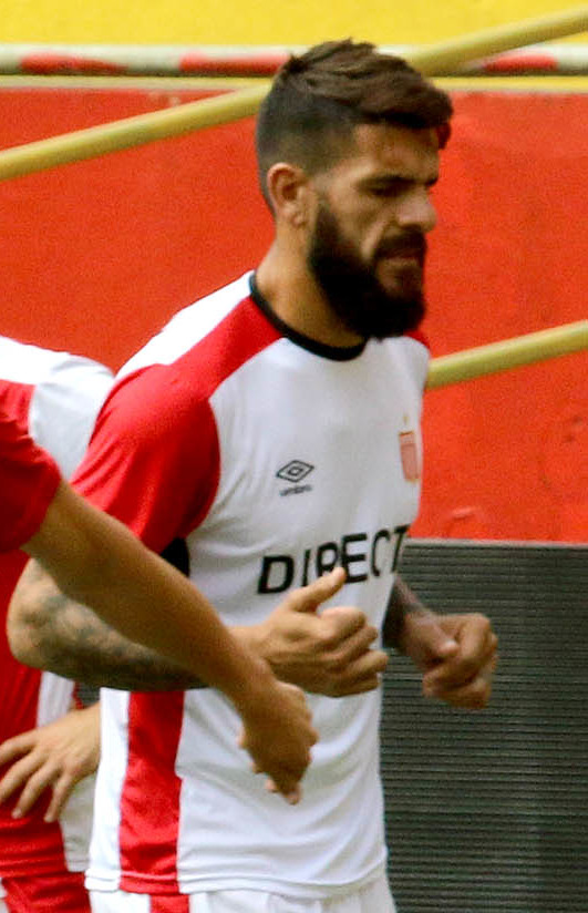 Guayaquil, miércoles 17 de mayo del 2017 (Andes).-El equipo argentino Estudiantes de la Plata entrenó esta mañana en la cancha del estadio Monumental de Guayaquil, el equipo "Pincharrata" se enfrenta este jueves a Barcelona de Ecuador, por la Copa Libertadores.Foto:Andes/César Muñoz